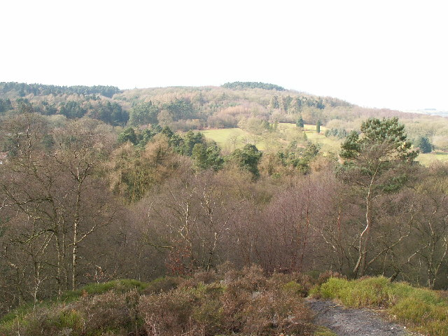 Worcestershire, England. View from Bilberry Hill towards Beacon Hill. Bilberry Hill is in the Lickey Hills Country Park. Together with its neighbours the hill is composed of Lickey Quartzite, one of the oldest rocks in the region. The Lickey Hills include some of the largest areas of bilberry and heather in the county. The hill in the distance is Beacon Hill. The open area in between is a golf course.